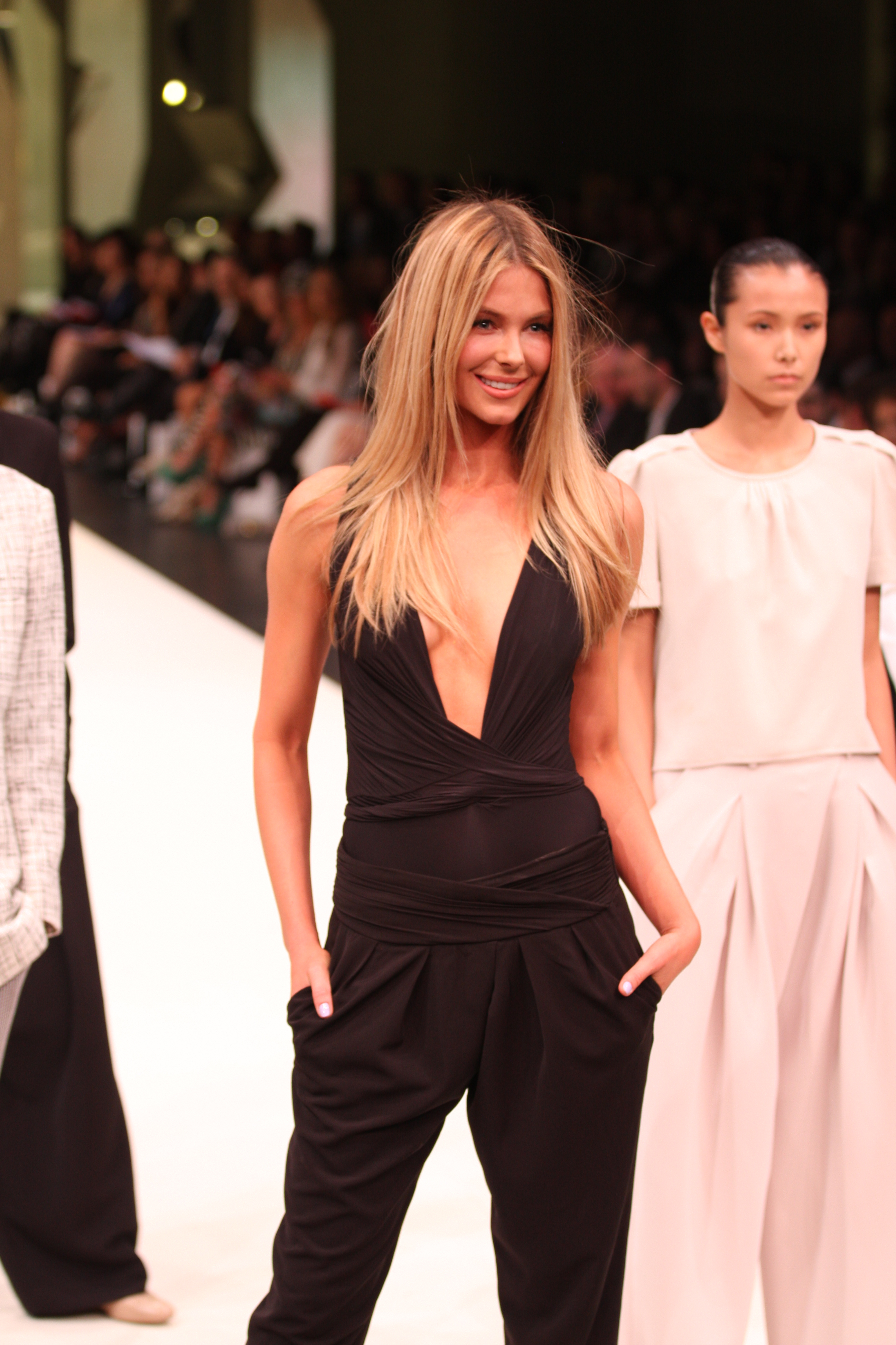 Sydney's Carriageworks caught fashion fever tonight as the Myer Spring Summer 2011/12 Collection launched. Vintage maxi dresses, bikini, floppy hats and funky music was all the rage. Myer ambassadors Jennifer Hawkins (former Miss Universe... just in case you forgot) and male model Kris Smith were the catwalk headliners. The new brands welcomed in were Sass & Bide, Fleur Wood and Jayson Brunsdon Black Label. Hawkins opened the show for the 500 guests, in an eye-catching sass & bide ensemble, complete with a long, gold sequinned jacket. 'Our Jen' spruiked Cozi, which was fairly well received. Controversial Wayne Cooper did his thing, as did Leona Edmiston. Cooper featured lots of pink dresses, tops and trousers; a beige silk suit and a nude - white jumpsuit. Edmiston played it relatively safe with black dresses, complimented with fingerless gloves and head scarves. Judy Coomber, Myer group general manager of fashion and accessories, went with a foursome of themes in the impressive collection. The first is about bold colours including tangerine, emerald, gold, red, purple and fuchsia. Myer's range also includes Riviera-inspired ensembles. Vintage remains popular, with softish florals, maxi dresses and big hats. So ladies, believe me, there will be plenty of opportunities to splash your fashion dollar on this season in just about any fashion that takes your fancy.